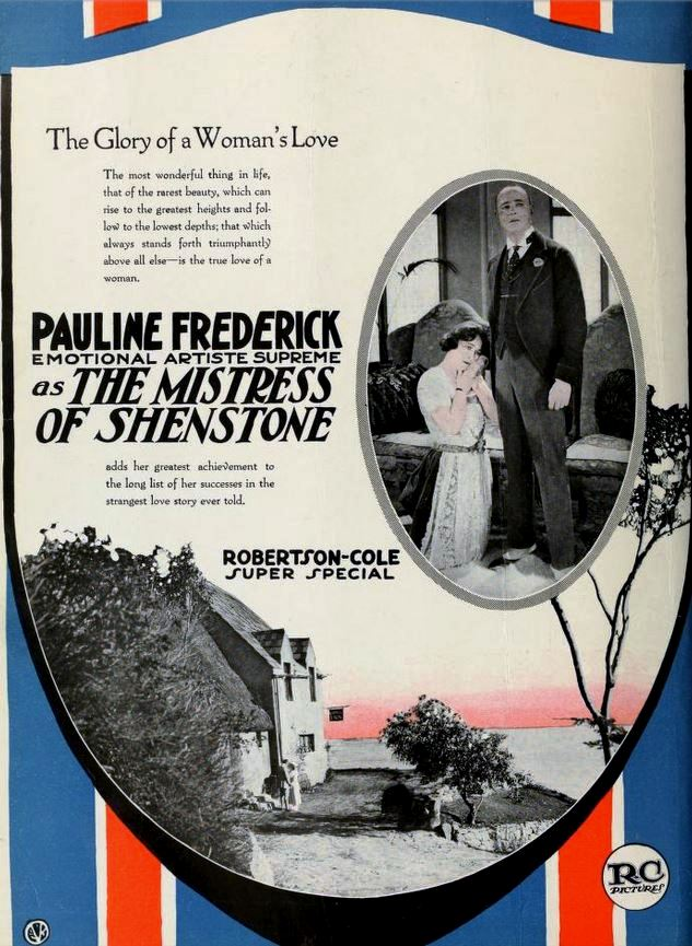 Advertisement for the American romance film The Mistress of Shenstone (1921) with Pauline Frederick and Roy Stewart, facing page 5 of the March 20, 1921 Film Daily.